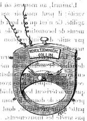 Minière alarm for treatment of spermatorrhea